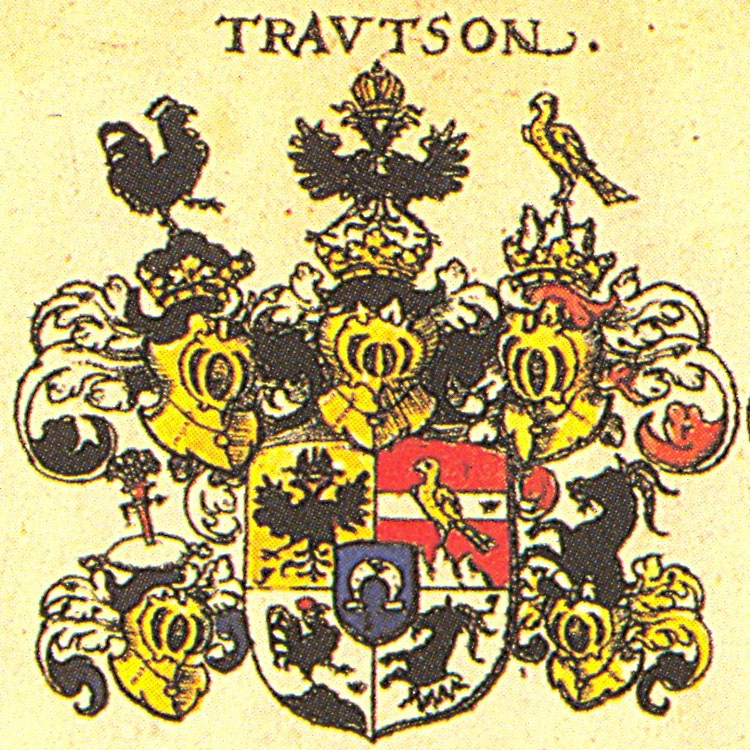 Coat of arms of the Trautson family. Taken from Johann Siebmacher: New Wappenbuch, page 23.